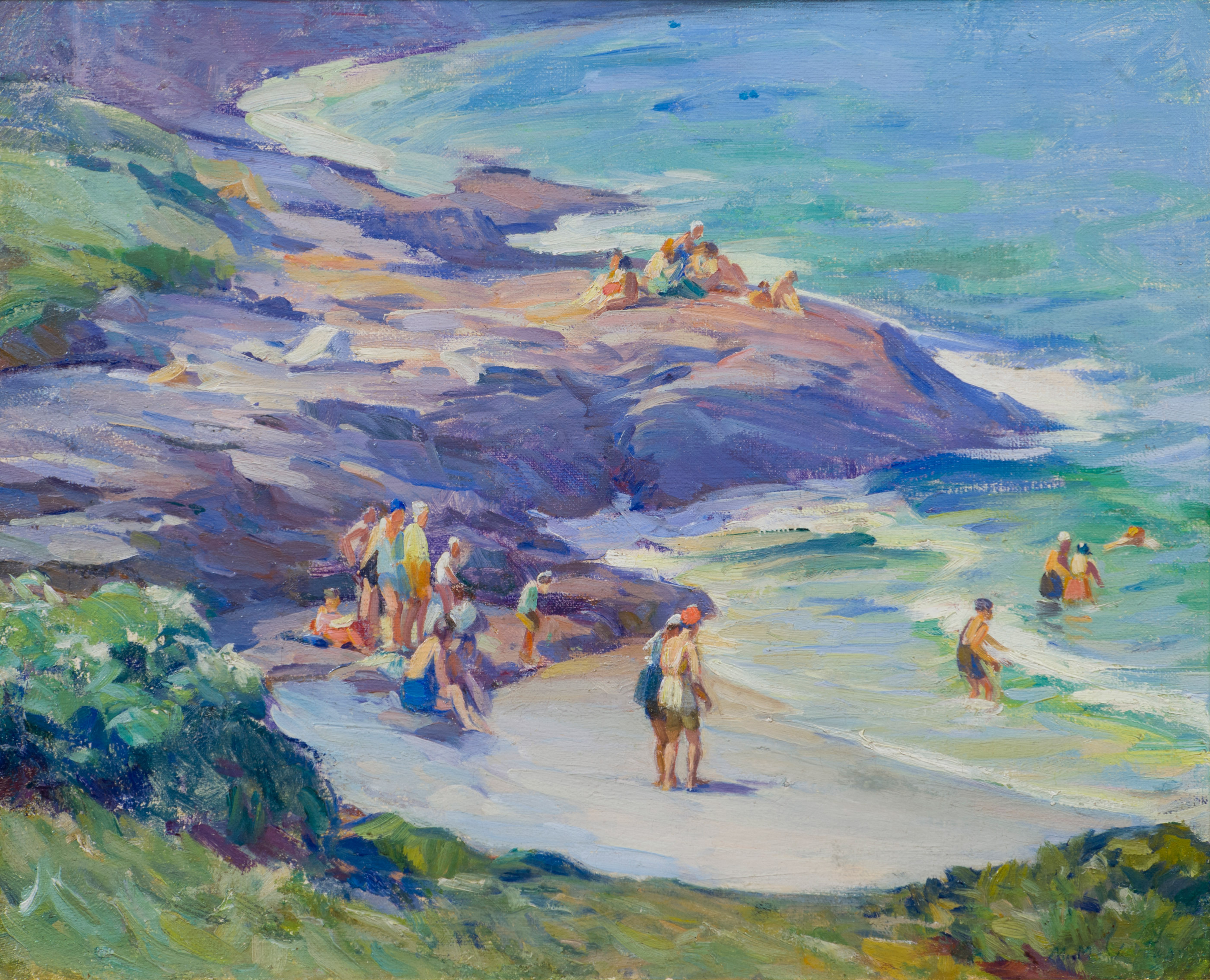 Ogunquit Bathers by Mabel May Woodward, oil on canvas, 16 x 20 inches